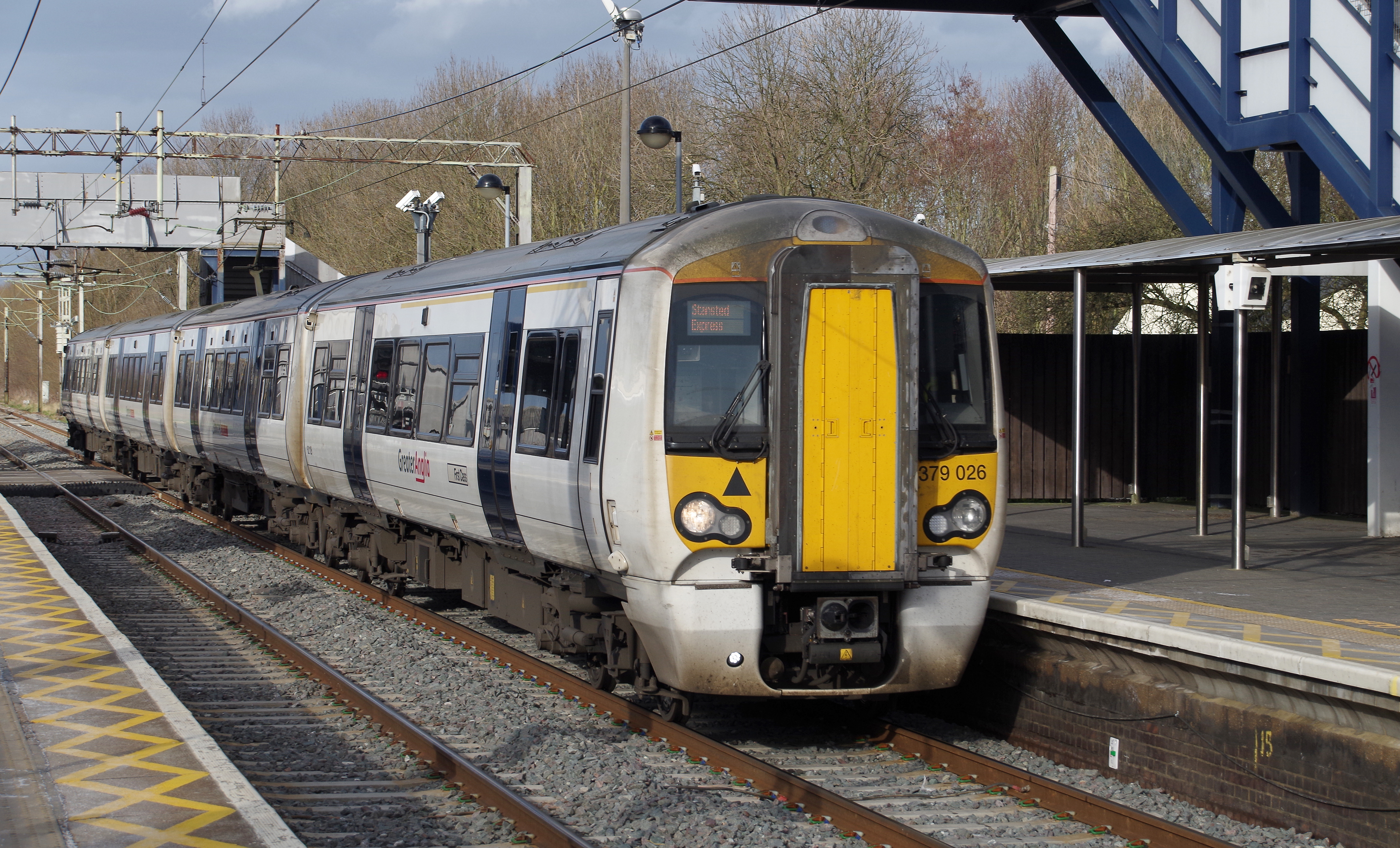 Abellio Greater Anglia class 379 "Electrostar" EMU 379026 at Cheshunt, operating a Stanstead Express service to Liverpool Street.